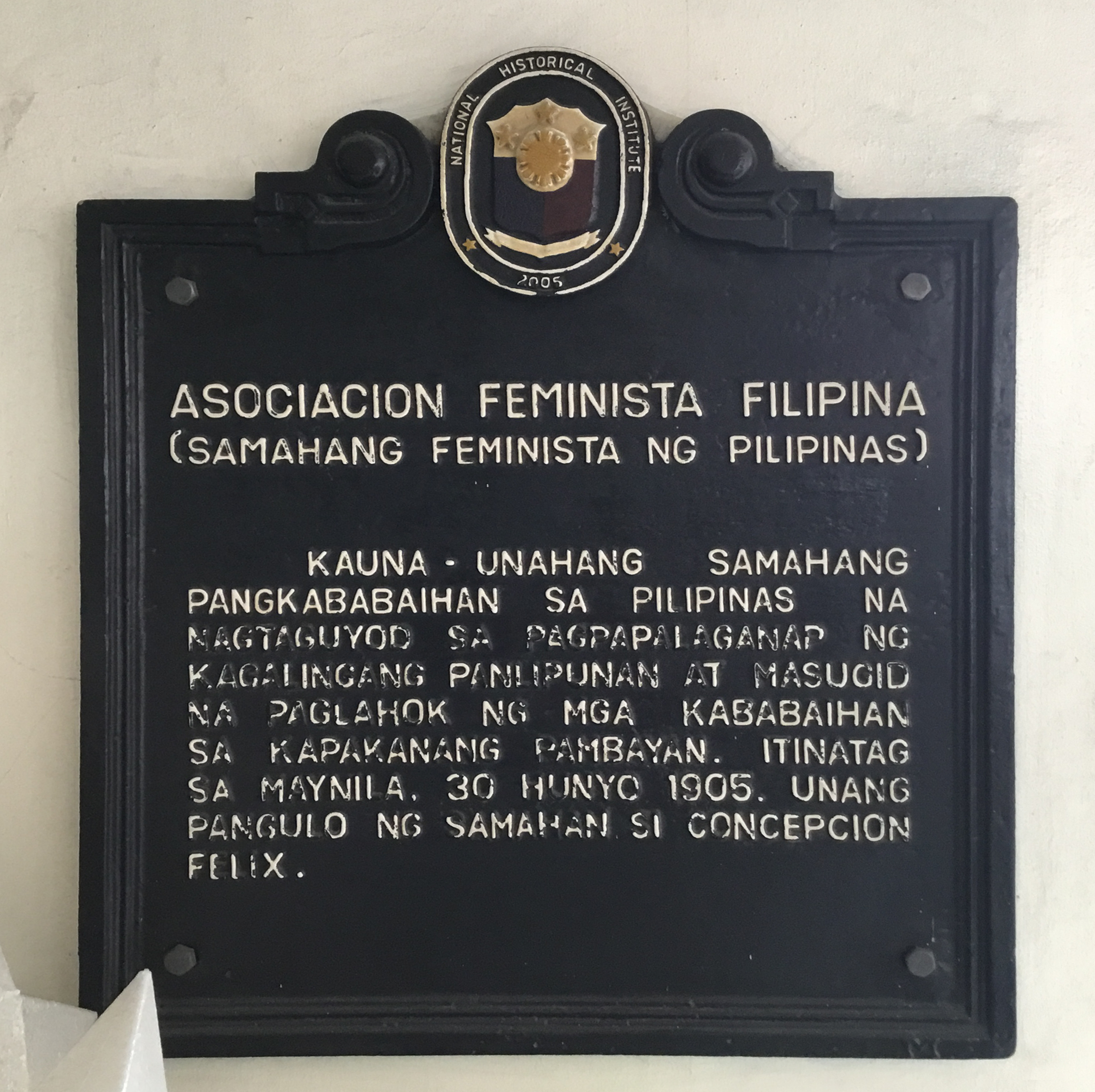 Asociacion Feminista Filipina (Samahang Feminista ng Pilipinas) NHCP Historical Marker